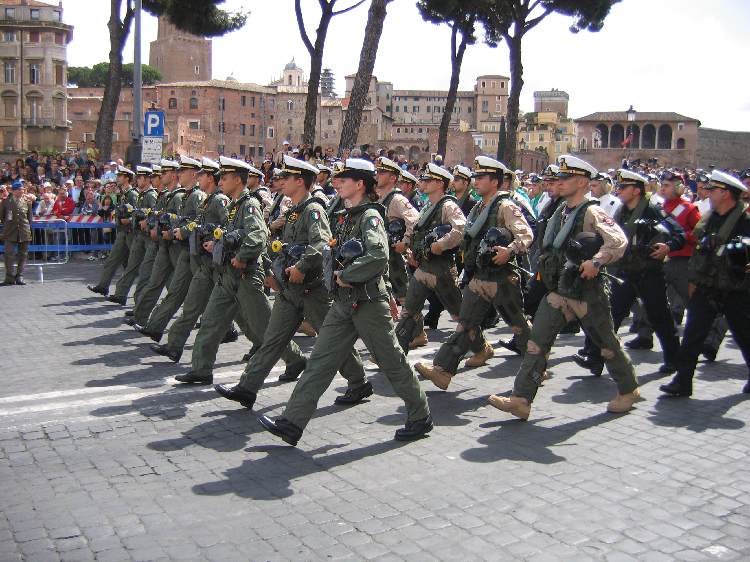 Soldiers of the Marina militare (Italian Navy), first and second row: Naval aviators (jet aircraft), third row: Naval aviators (helicopters), fourth row: Aircraft carrier Crew members.